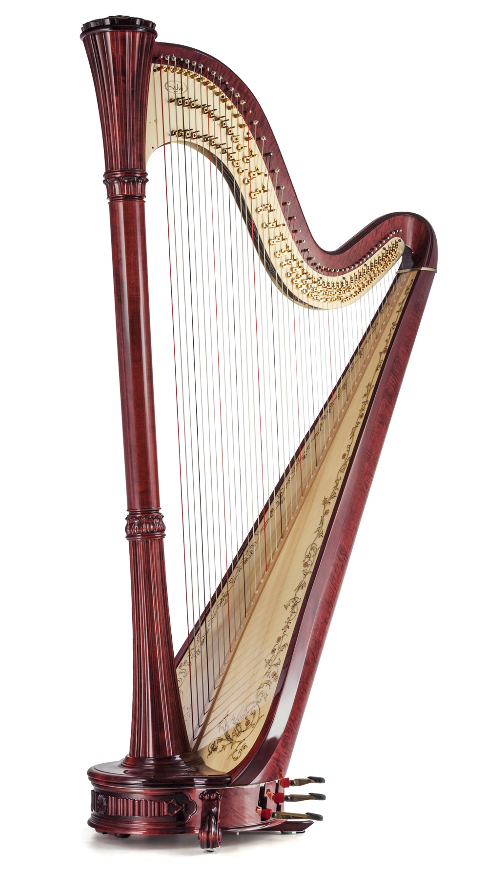 Salvi harp, model Diana. 47 strings, spruce soundboard, mahogani body.